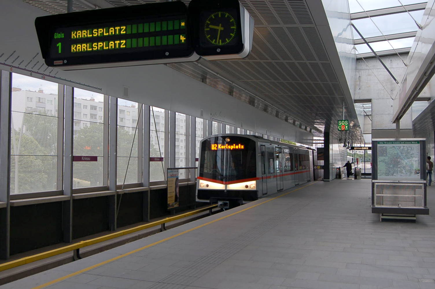 Krieau Underground station in Vienna's 2nd district with V/v class train